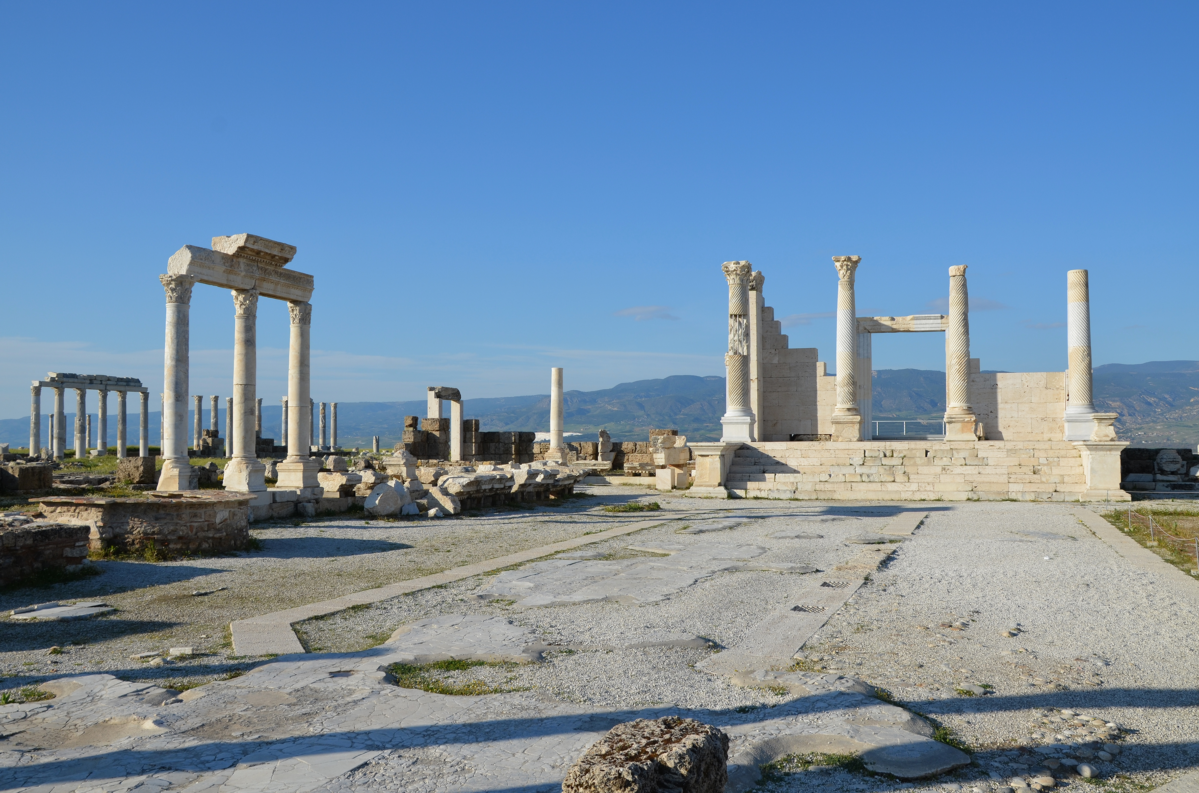 Temple A, built in the Antonine period (2nd century AD), Laodicea on the Lycus, Phrygia, Turkey